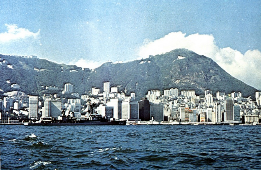 The U.S. Navy destroyer USS Everett F. Larson (DD-830) at Hong Kong in 1969.